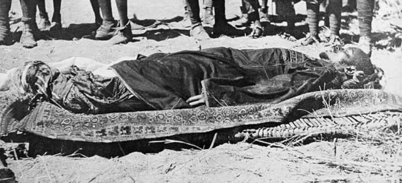 Photograph of Ali Dinar, last Sultan of Darfur, following his death in battle in 1916 at the hands of Anglo-Egyptian forces. Ali Dinar was killed in Kulme, south of Zalingei. This "trophy photo" of him was taken by British troops right after his death, and is the only visual depiction ever made of a Darfuri sultan.[1] The photograph is currently preserved at Durham University Library (588/1/159).